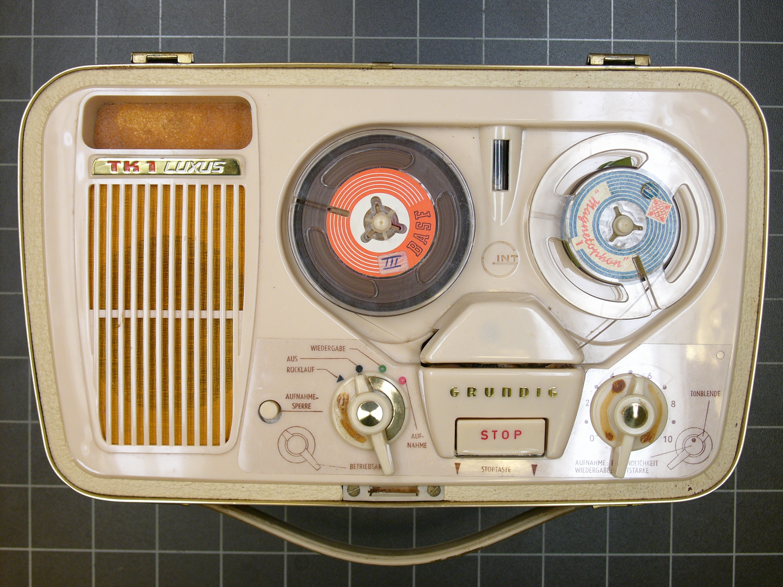 Portable audio tape TK1 LUXUS by Grundig